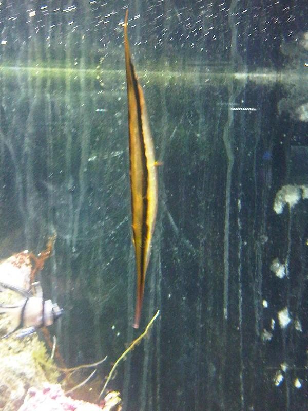 Razorfish (Aeoliscus strigatus) in Kew Gardens, England.